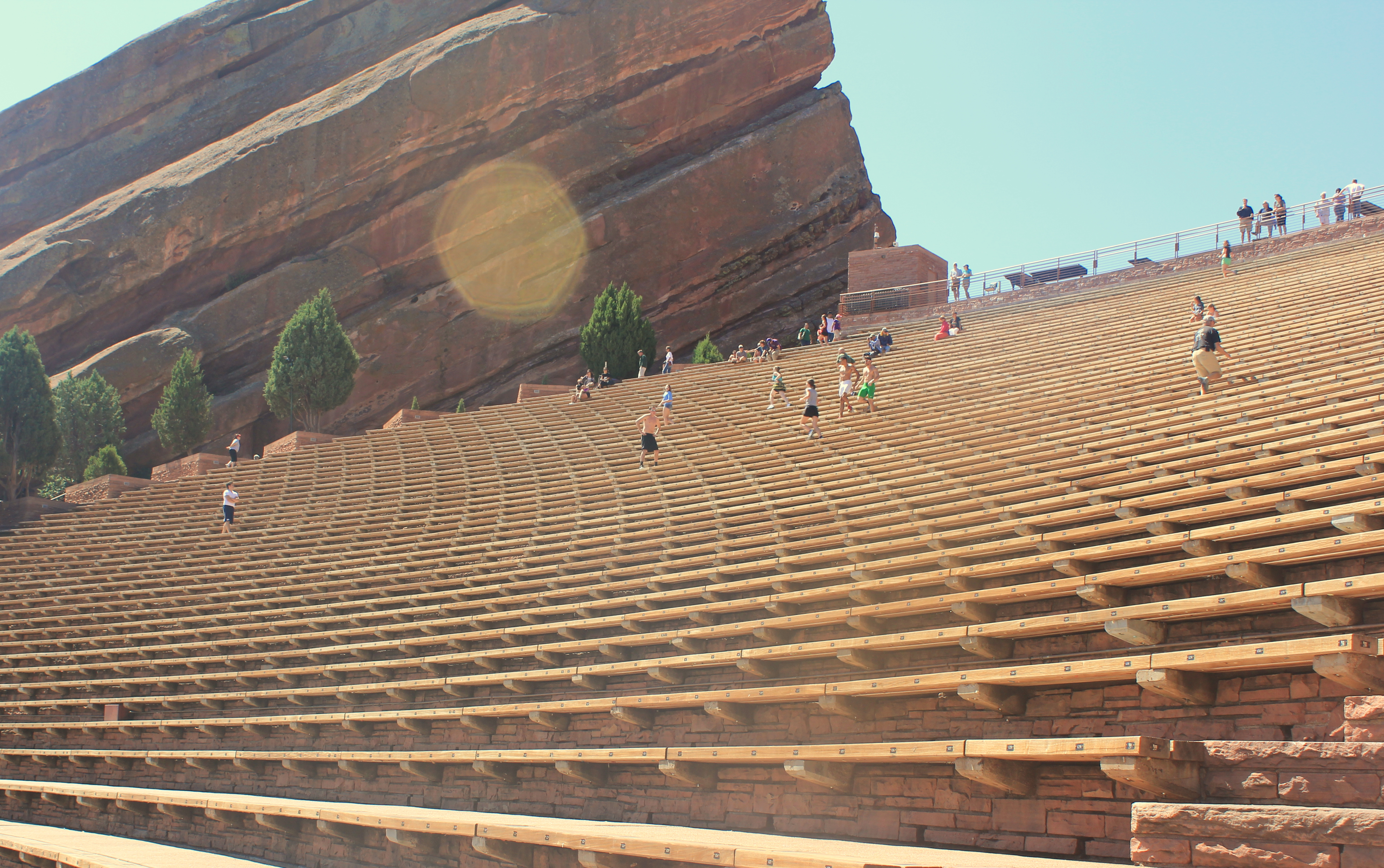 Red Rock Amphitheatre Seatings